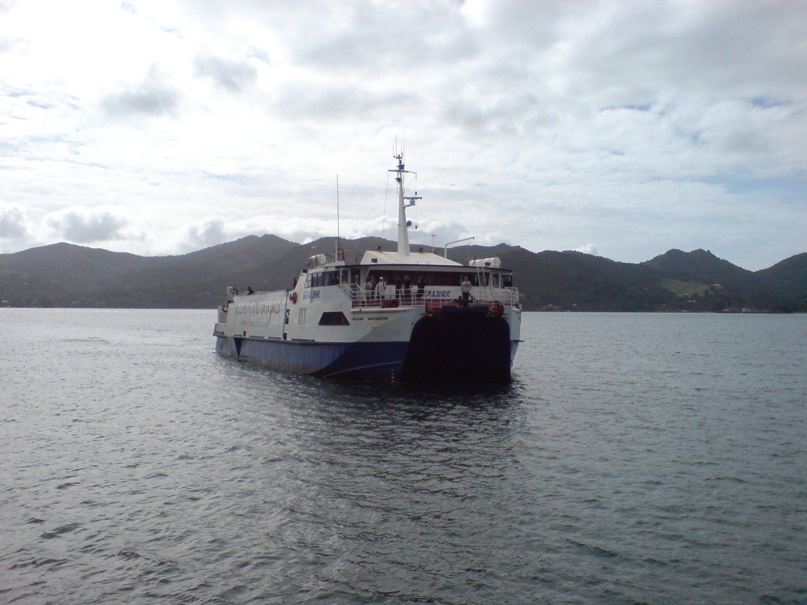 The ferry service to Great Barrier Island, New Zealand, having just arrived from Auckland at Tryphena, Great Barrier Island. The "Eco Islander" in large letters on her hull is a service name, the ship's name is Island Navigator. IMO No: 8829323 Owner: Subritzky Shipping Company